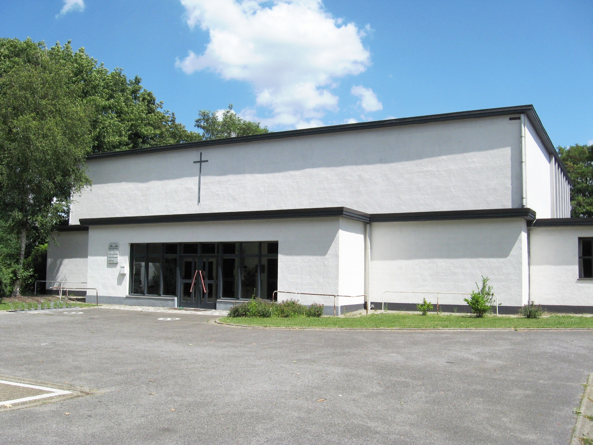 Church of Saint John in Kuringen, Hasselt, Limburg, Belgium